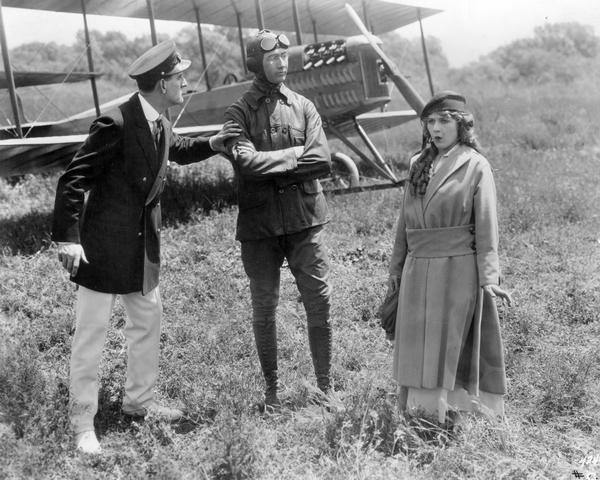 Donald Crisp, aviator Glenn Martin, and Mary Pickford in the 1915 silent comedy A Girl of Yesterday (Famous Players-Lasky, 1915). A Martin Model TT biplane is behind them. Filmed at Griffith Park, Los Angeles, California.